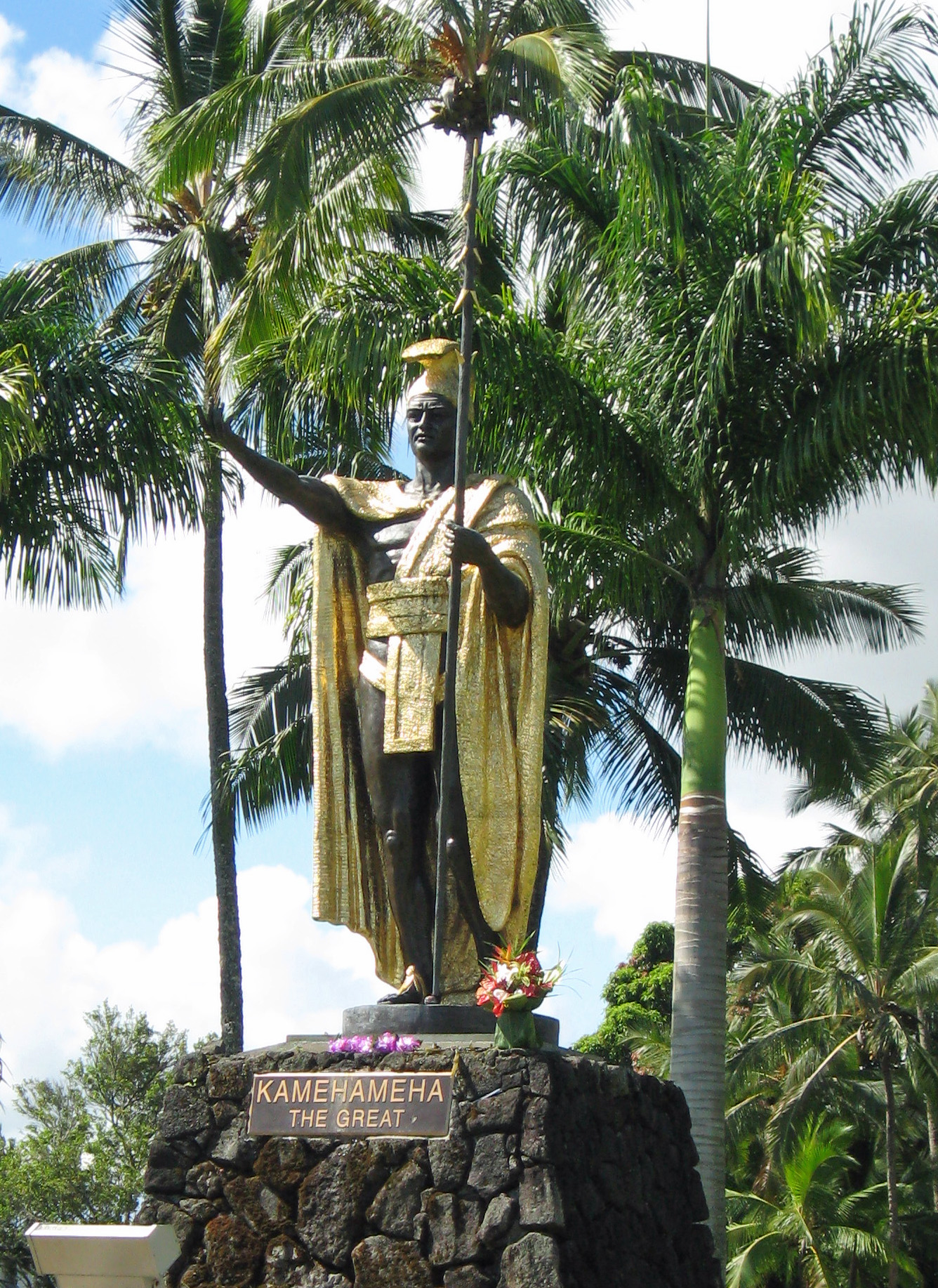 The statue of Kamehameha I, founder of the Kingdom of Hawaii, located in the Wailoa River recreation area of Hilo, on the island of Hawaii.